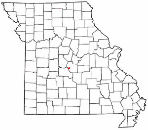 Modified from Image:MOMap-doton-Springfield.png